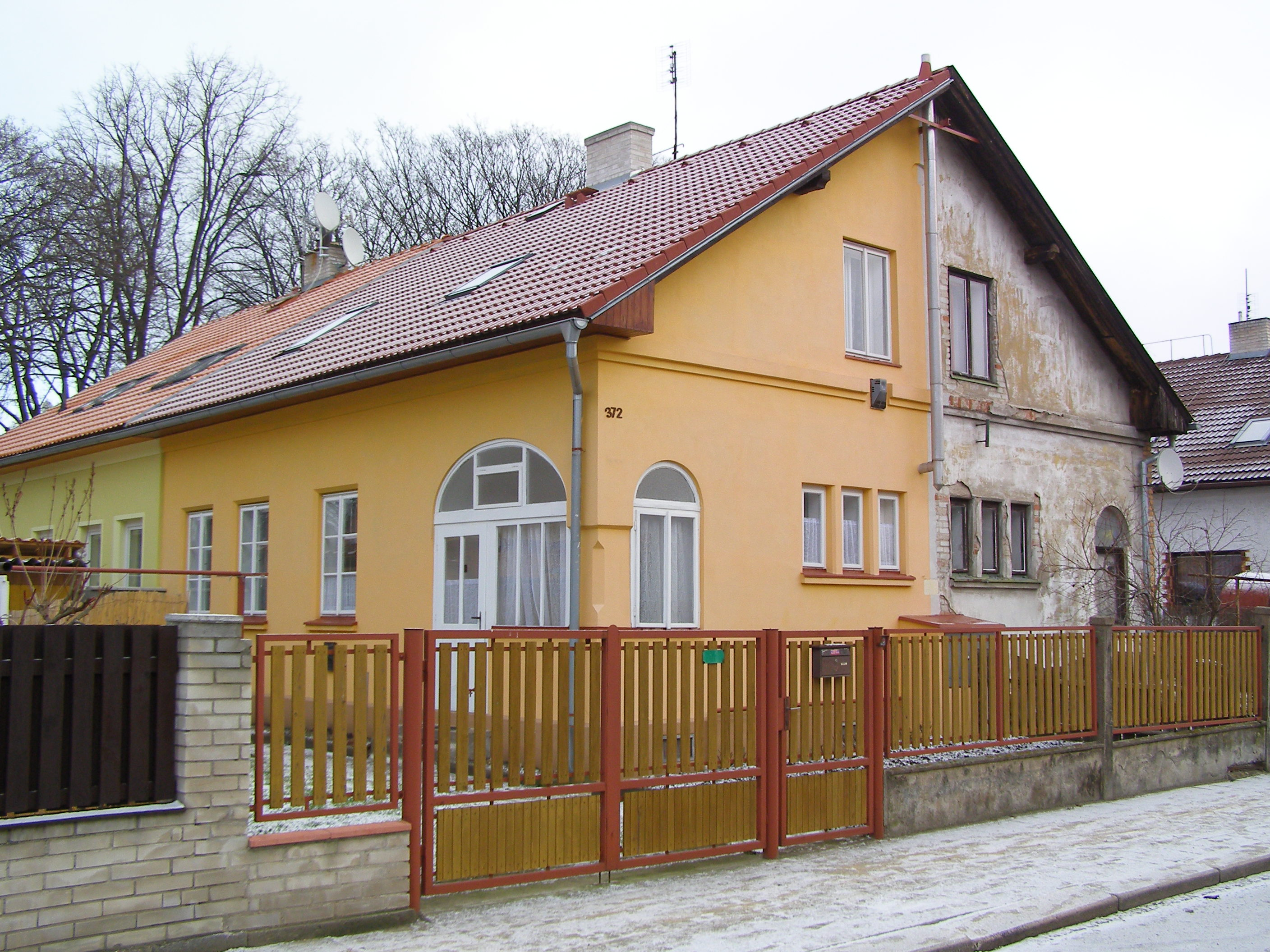 Worker's colony of company Austrian Northwestern Railway (ÖNWB) in Nymburk, Husova 372. Česky: Dělnická kolonie společnosti Rakouské severozápadní dráhy (ÖNWB) v Nymburce, Husova ul. č. p. 372.